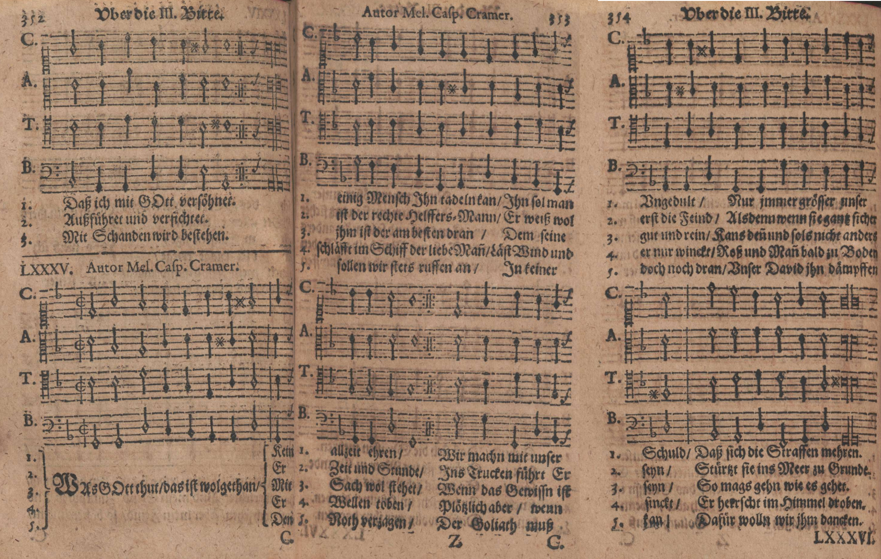 The hymn Was Gott thut, das ist wohlgethan with text of Michael Altenburg and melody of Caspar Cramer in the Cantionale Sacrum, Gotha, 1648 (composite of three pages).